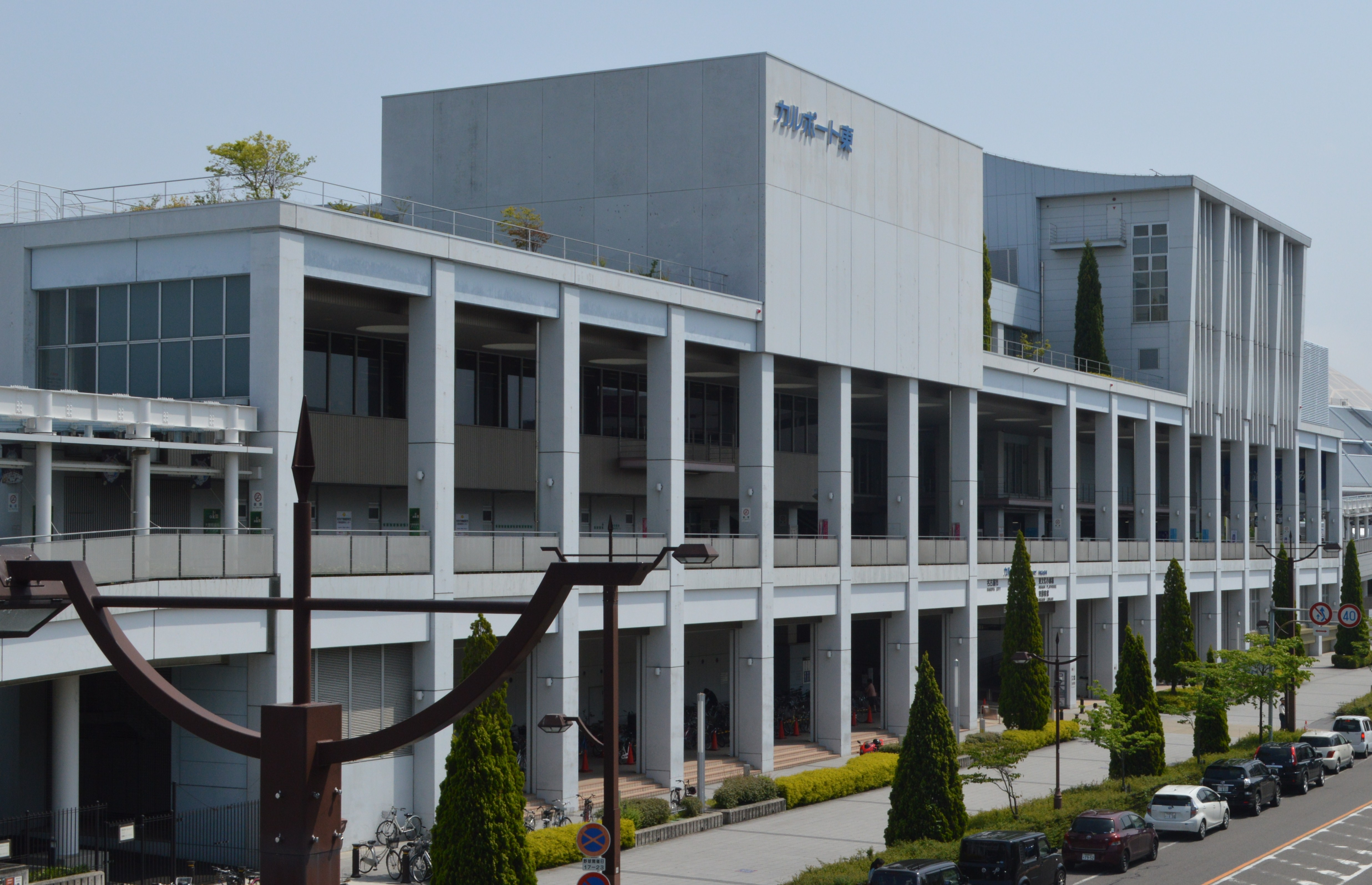 複合施設のカルポート東。名古屋市東スポーツセンター、名古屋市東文化小劇場、名古屋市東図書館を内包。 愛知県名古屋市東区